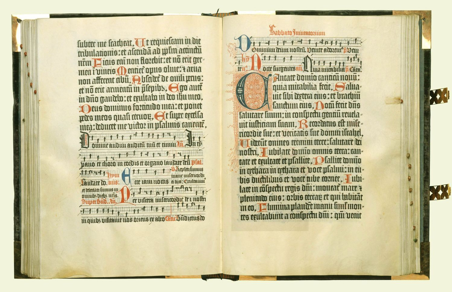 Spread of the Mainz Psalter printed by Peter Schöffer and Johannes Fust in 1457. Copy of the Royal Collection.